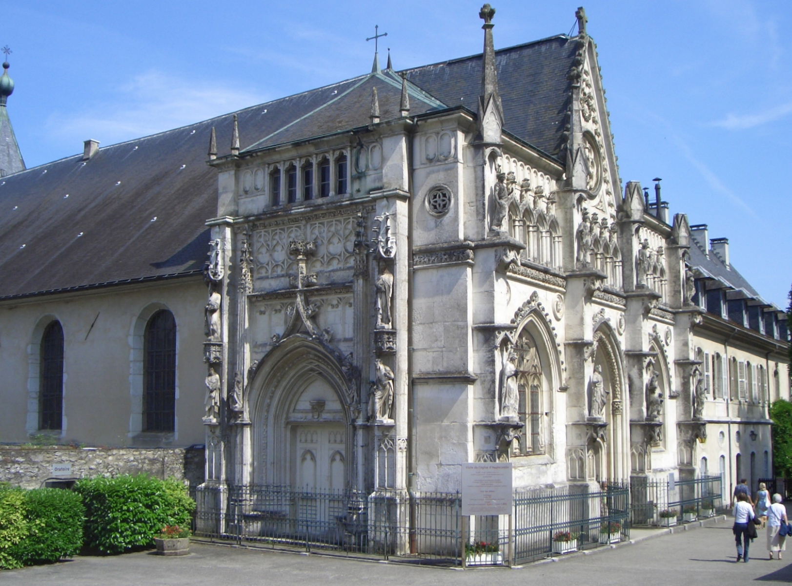 Royal abbey of Hautecombe on bord of the lake Le Bourget (Savoy, France).